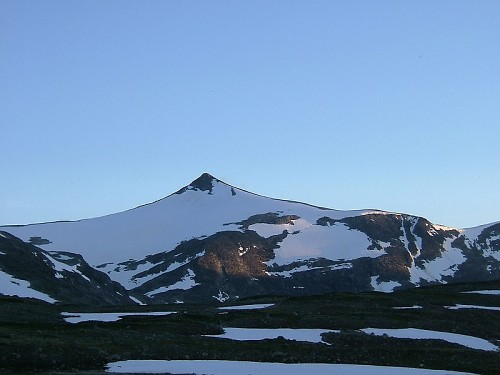 own work, august 2005, evening. Karitinden is on the border with Oppland county and Skjåk municipality, so it is shared with these. 1982 meters above sea. Karitinden in Tafjord mountains.